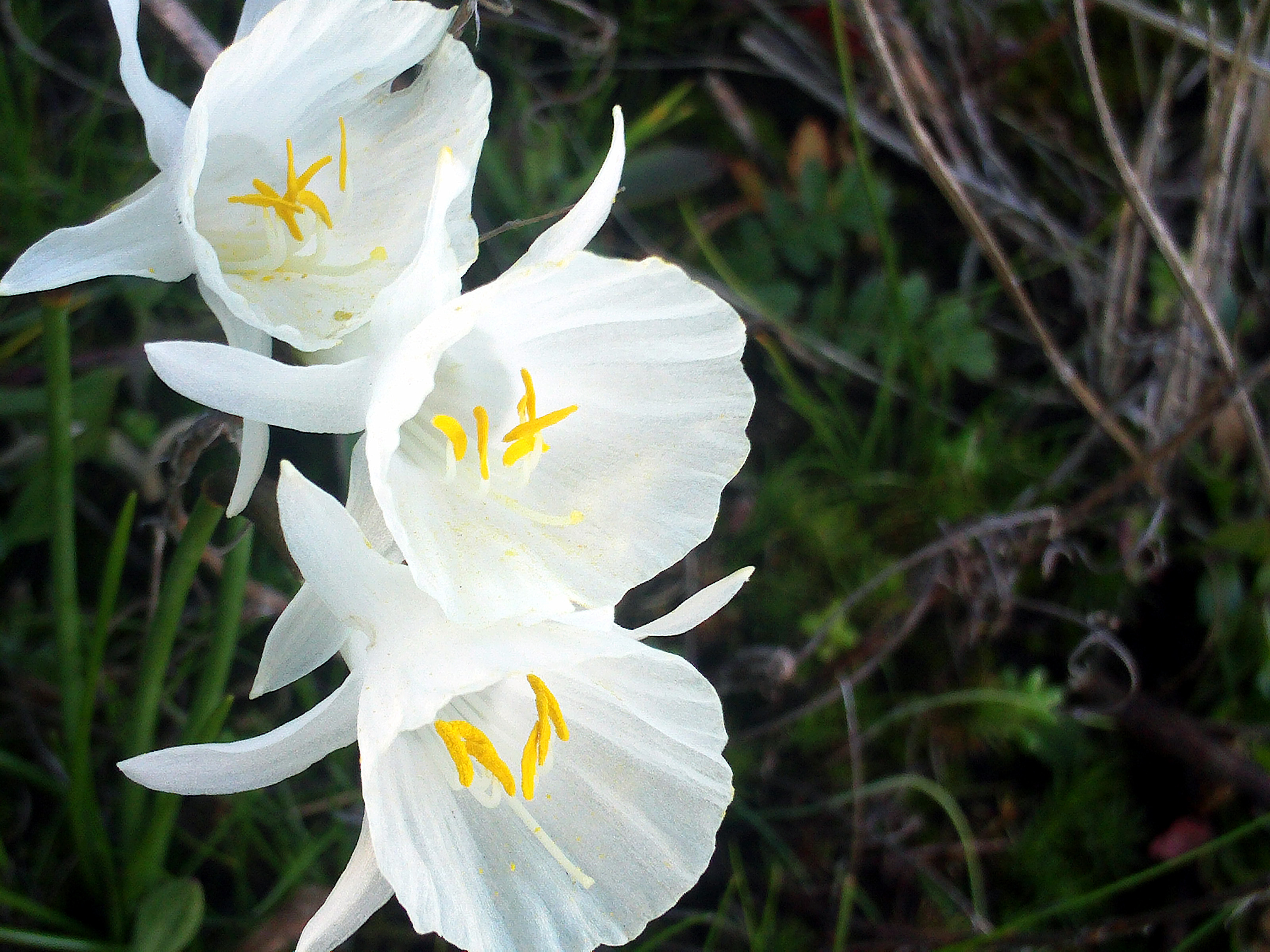 Narcissus cantabricus Flowers closeup Dehesa Boyal de Puertollano, Spain